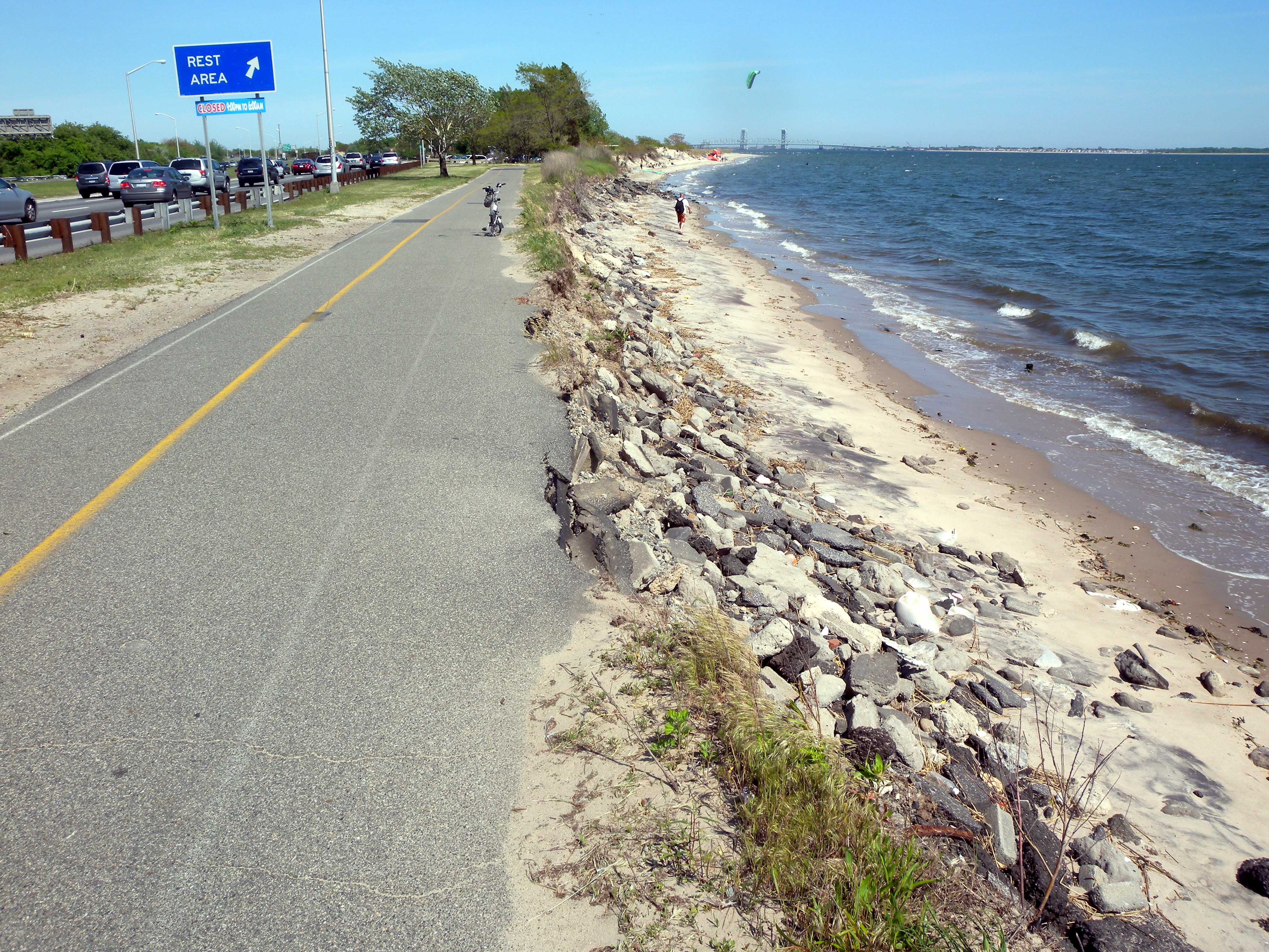 Looking east as southern edge of Shore Parkway bikeway crumbles into Sheepshead Bay on a sunny midday.